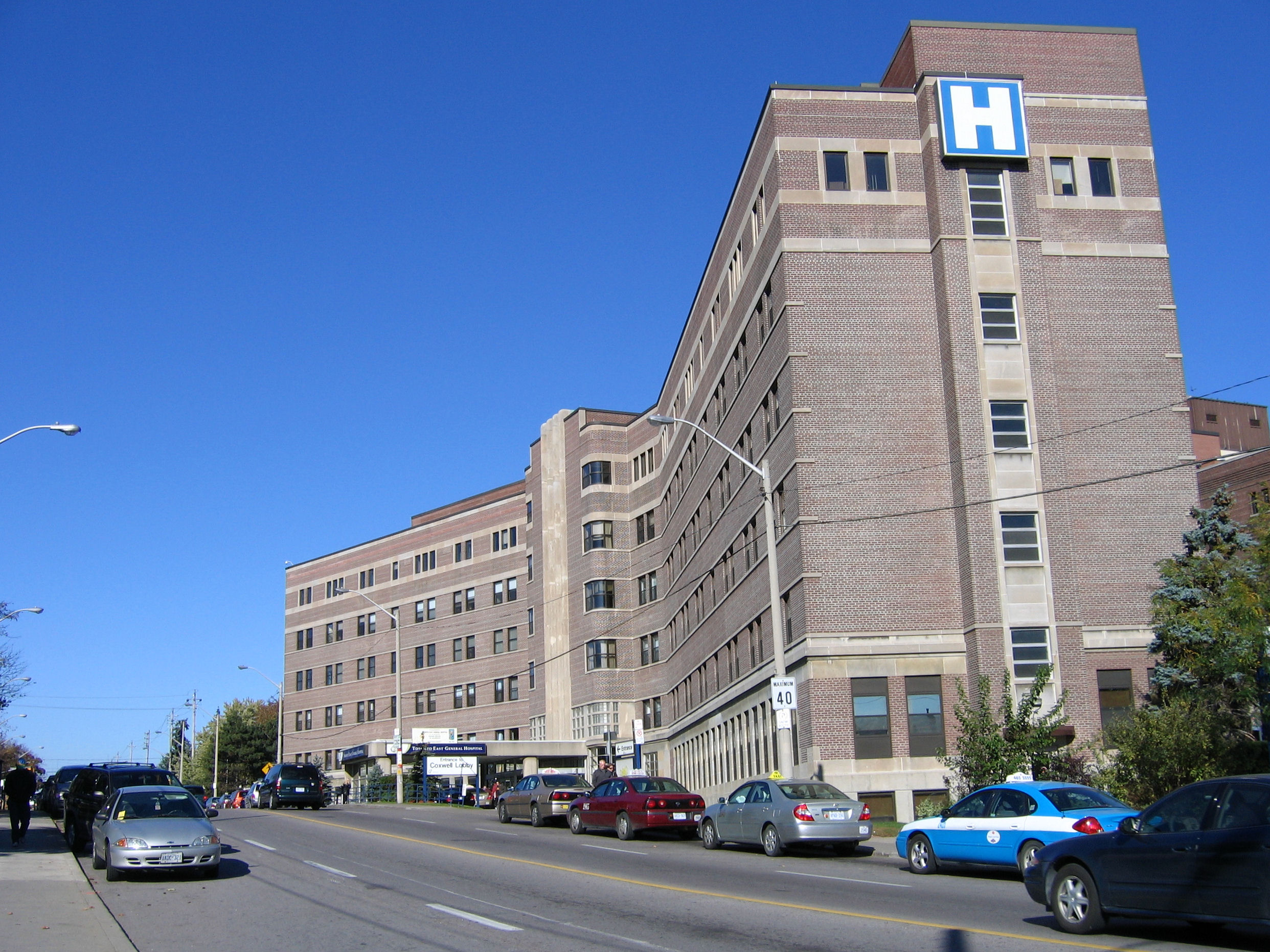 Photograph of Toronto East General Hospital. View from Coxwell Avenue.